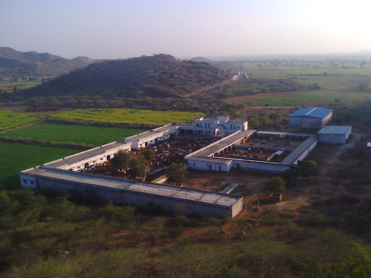 gosalla